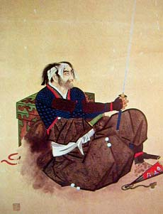 Akiyama Hokinokami Haruchika (Akiyama Nobutomo) by Fuko Matsumoto